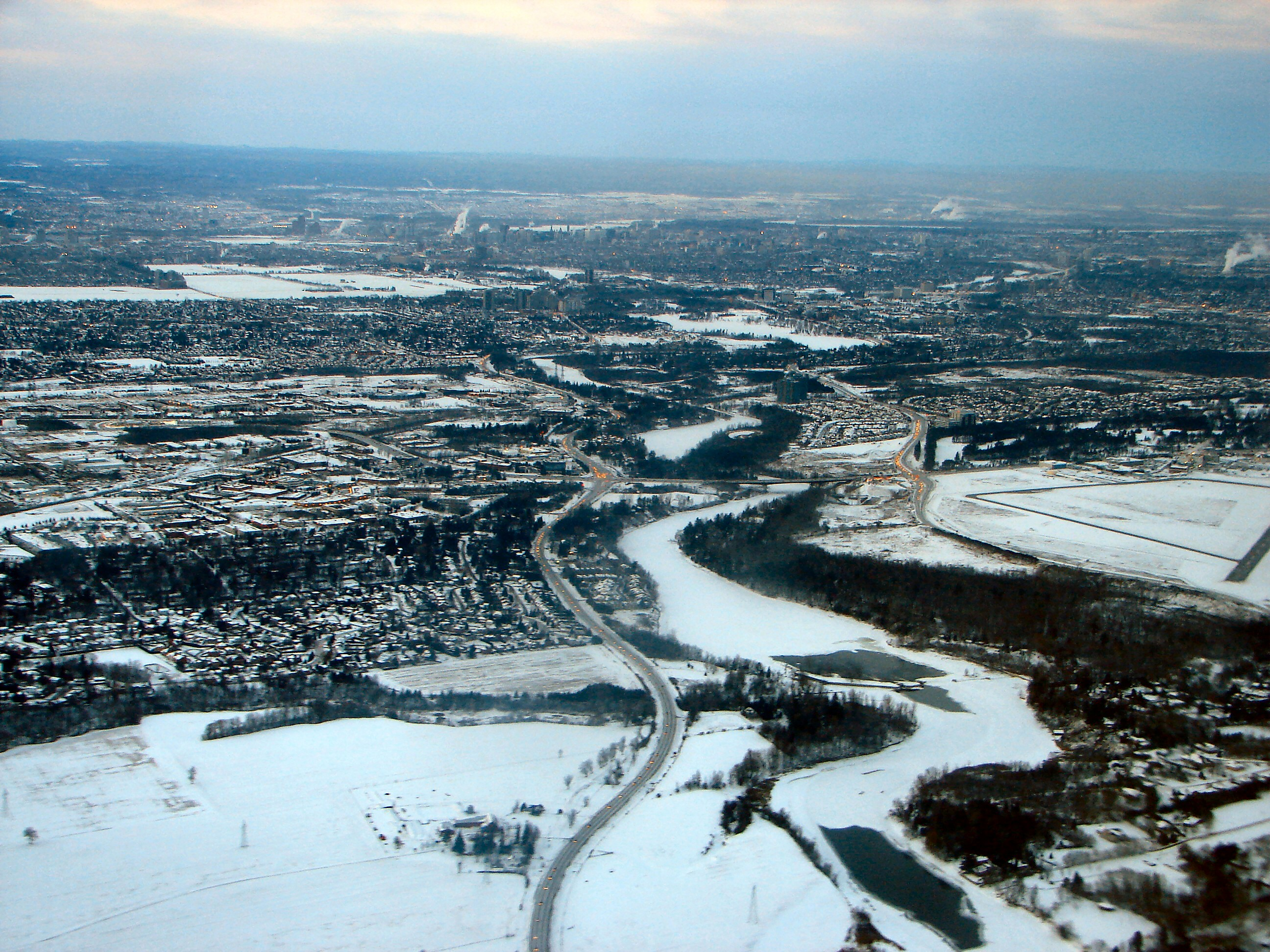 aerial view of Ottawa, Ontario, Canada.